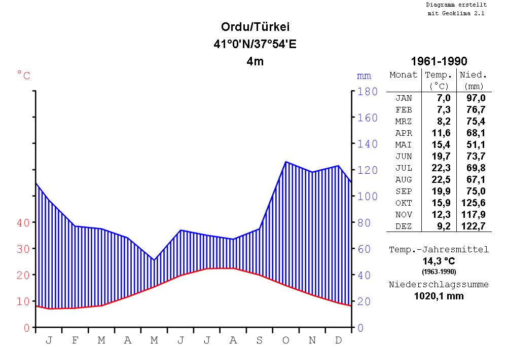 climate chart of Ordu, Turkey, for the period of time from 1961 to 1990, in the format by Walter and Lieth, metric, °Celsius and millimeters, chart made with Geoklima 2.1, label in German